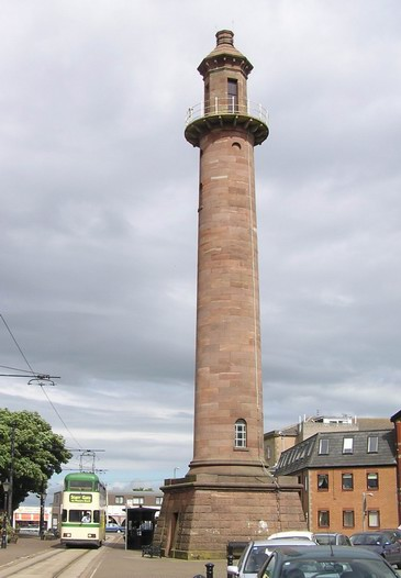 Fleetwood Pharos Lighthouse June 2004